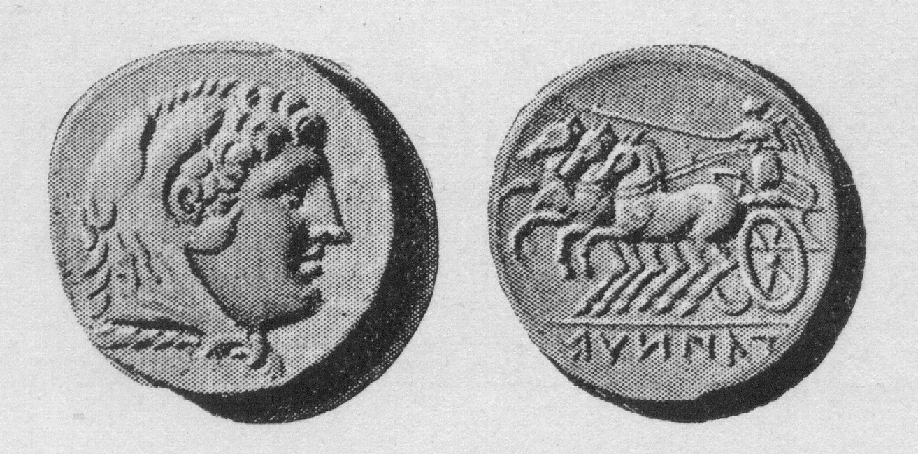 Campania, Teanum Sidicinum. Circa 265-240 BC. AR didrachm (ca. 7.5 g). Head of Herakles in lion-skin Nike in triga. TIANUD in exergue in Oscan alphabet (written from right to left)